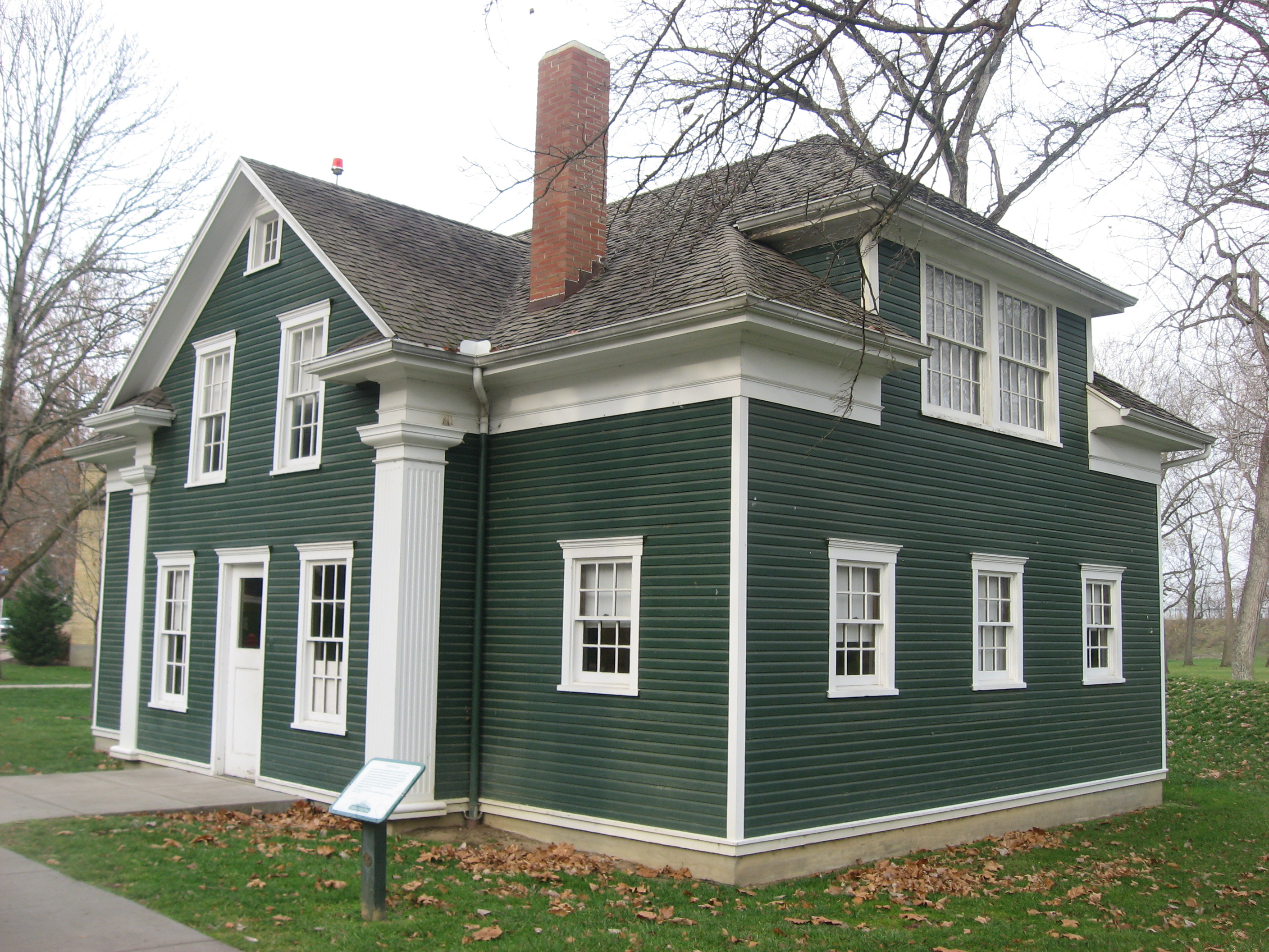 Front and eastern side of the Deeds' Barn, located at Carillon Historical Park in Dayton, Ohio, United States. Built in 1890 on the farm of Edward Andrew Deeds, it was here that Charles F. Kettering invented the electric engine starter. The barn was moved to Carillon Park in 2009 and is listed on the National Register of Historic Places.